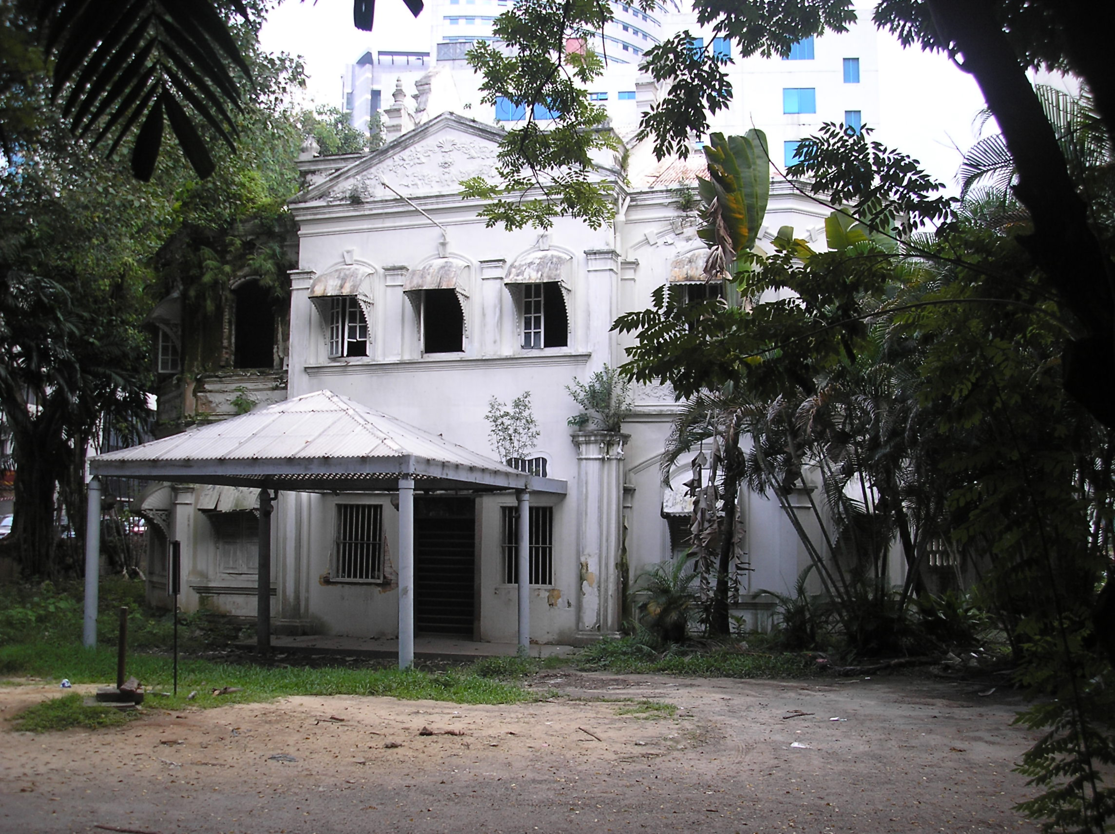 The frontal facade of the abandoned Loke Mansion (as of June 2007), Loke Yew's final residence before his death in 1917, in Kuala Lumpur, Malaysia.